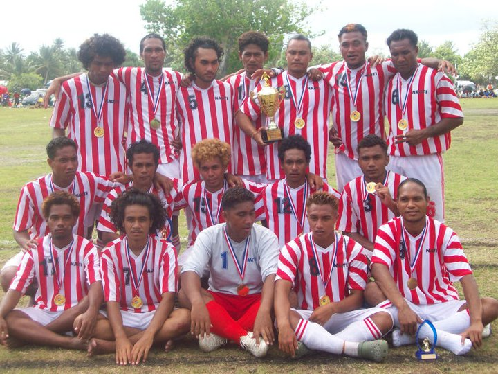 Nauti